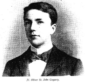 Irish poet Oliver St. John Gogarty as a young man